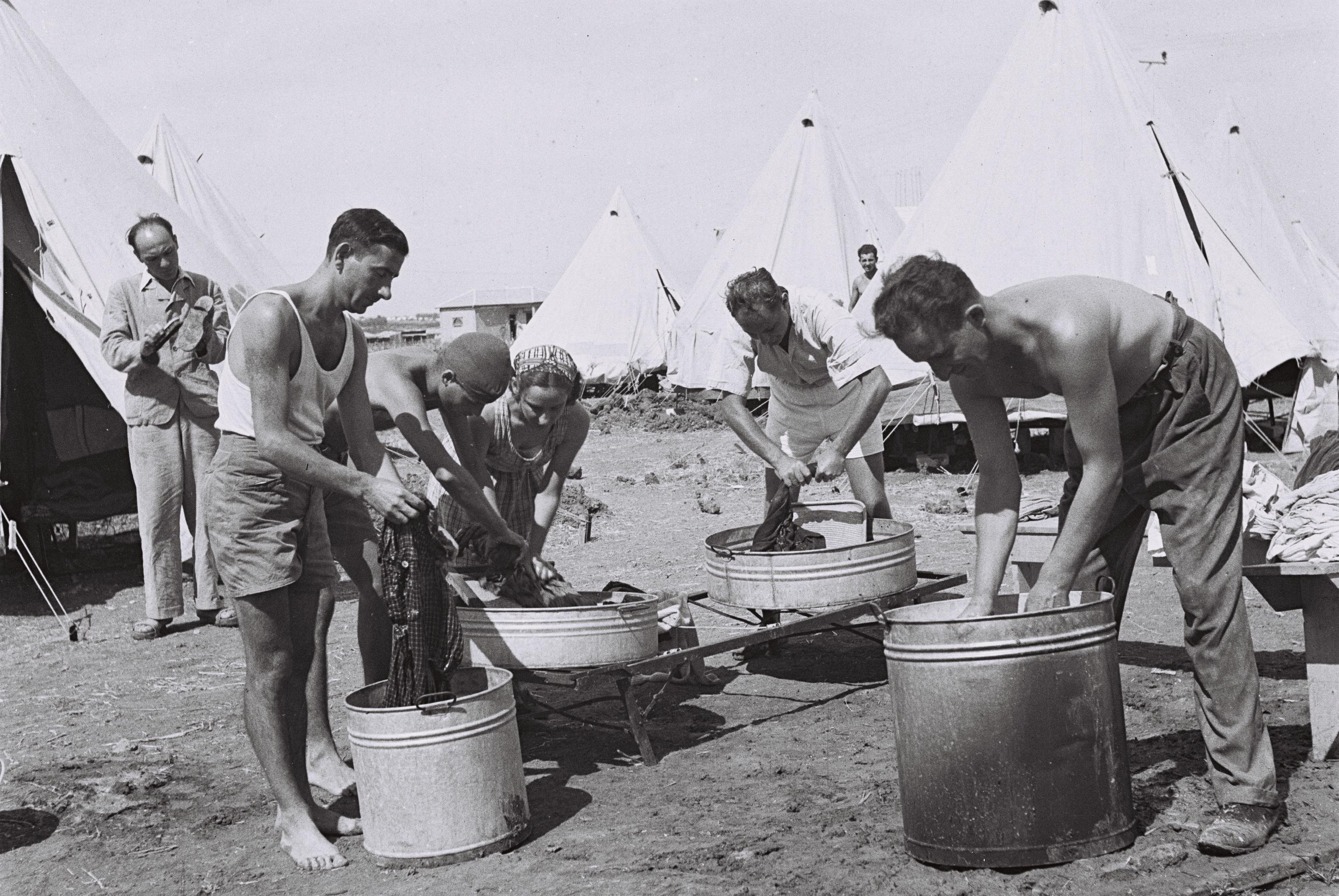 New immigrants wash their clothes at the immigrant camp near Kibbutz Na'an. עולים חדשים עושים כביסה במחנה העולים ליד קיבוץ נען Photo: Zoltan Kluger (1896–1977) Alternative names Qlwger, Zwlṭan; Zolṭan Ḳluger; Kluger, Z.; W. von Szigethy; W. Von SzighethyDescriptionHungarian-Israeli photographerDate of birth/death 8 February 1896 16 May 1977Location of birth/death Kecskemét ManhattanAuthority control : Q7035699 VIAF: 19504001 ISNI: 0000 0000 6686 1613 ULAN: 500483392 LCCN: no2008144265 Open Library: OL6614008A WorldCat creator QS:P170,Q7035699 , 03/01/1940.